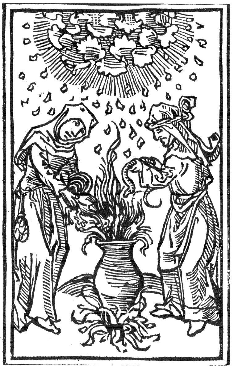 Cooking Witches - Unknown Date